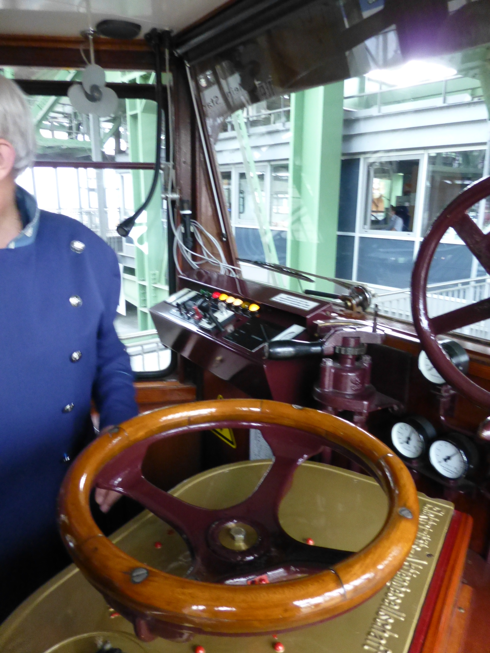 The action "We invite Samuel to Wuppertal".